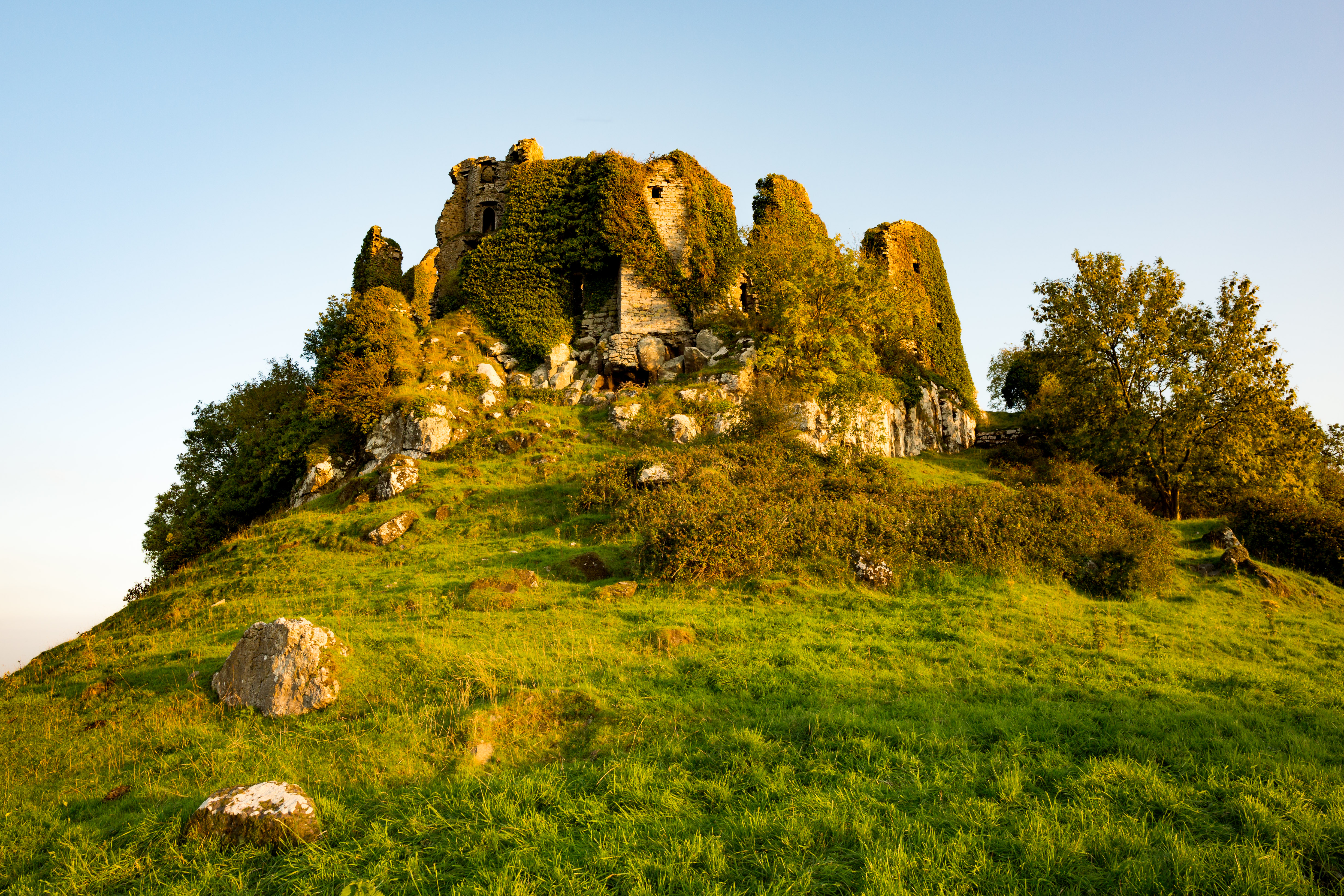 I stopped off at Carrigogunnell Castle, while driving back through Limerick on a beautiful September evening.